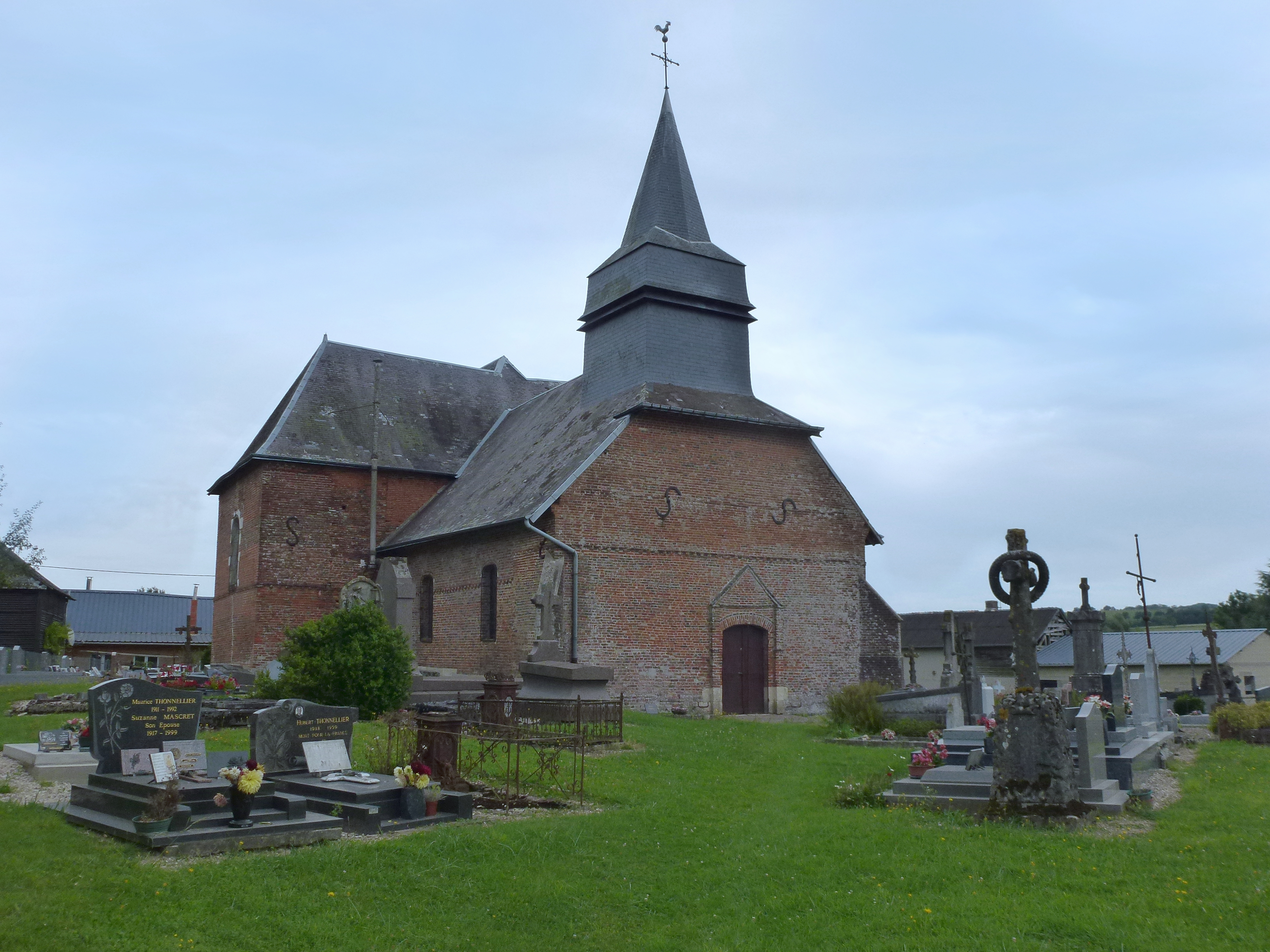 Rubigny (Ardennes) église Sainte-Geneviève